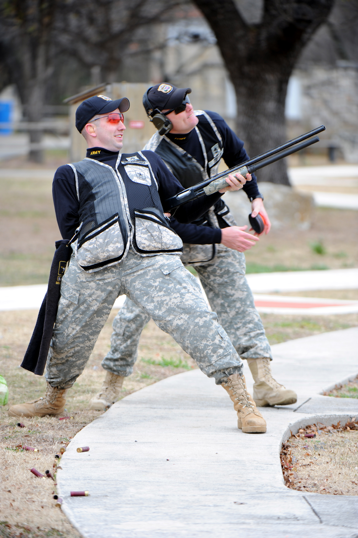 U.S. Army Marksmanship Unit shotgun shooter Staff Sgt. Josh Richmond goes behind his back to blast a clay pigeon from the sky. Sgt. 1st Class Charles Coffey tosses the targets and provides play-by-play of Richmond's trick-shooting exhibition Jan. 7 at the San Antonio Gun Club. See more at [ Army shooters aim to influence Texans at bowl]